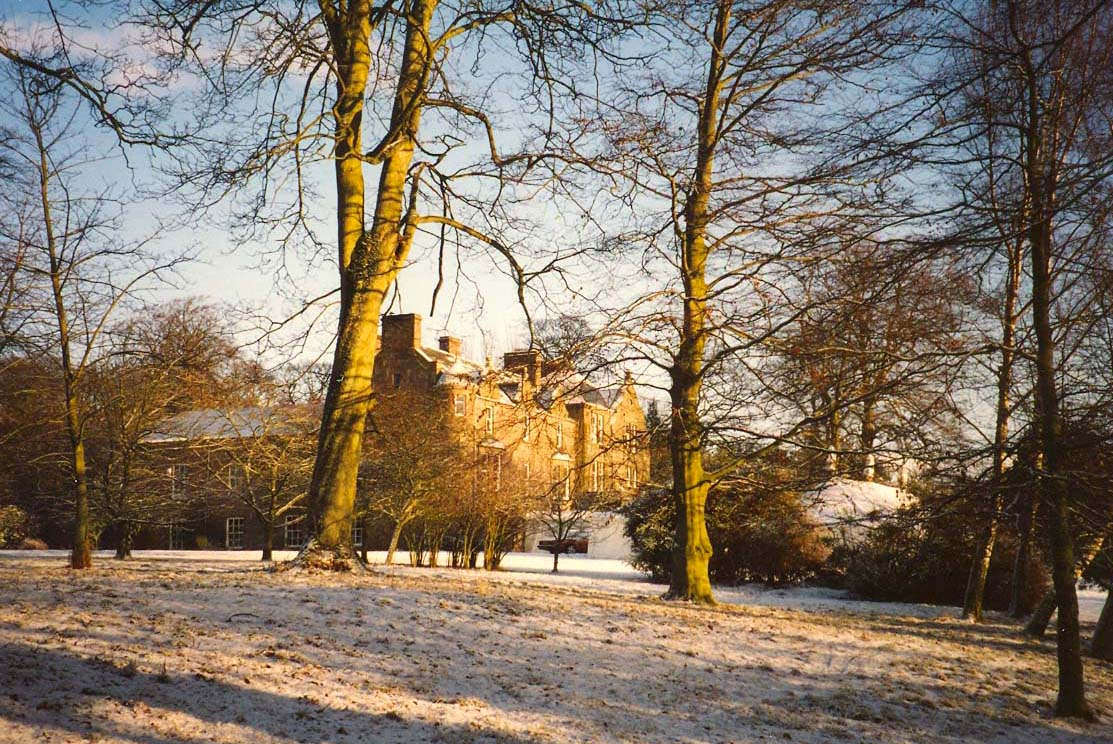 Balmuir House, near Dundee